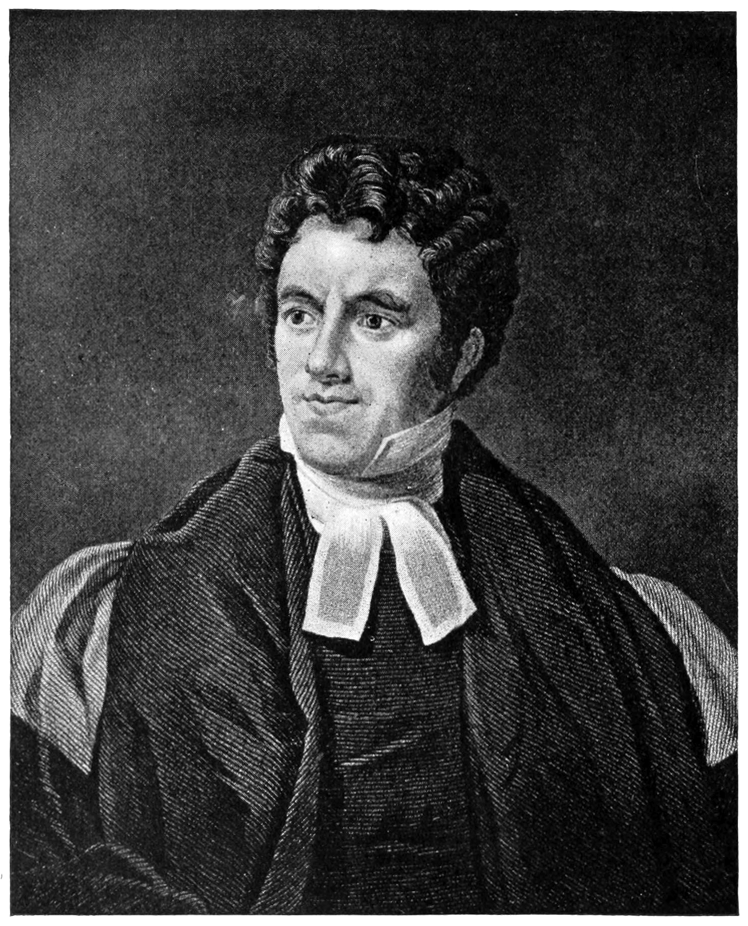 Photographic portrait of Dr. Thomas Arnold.